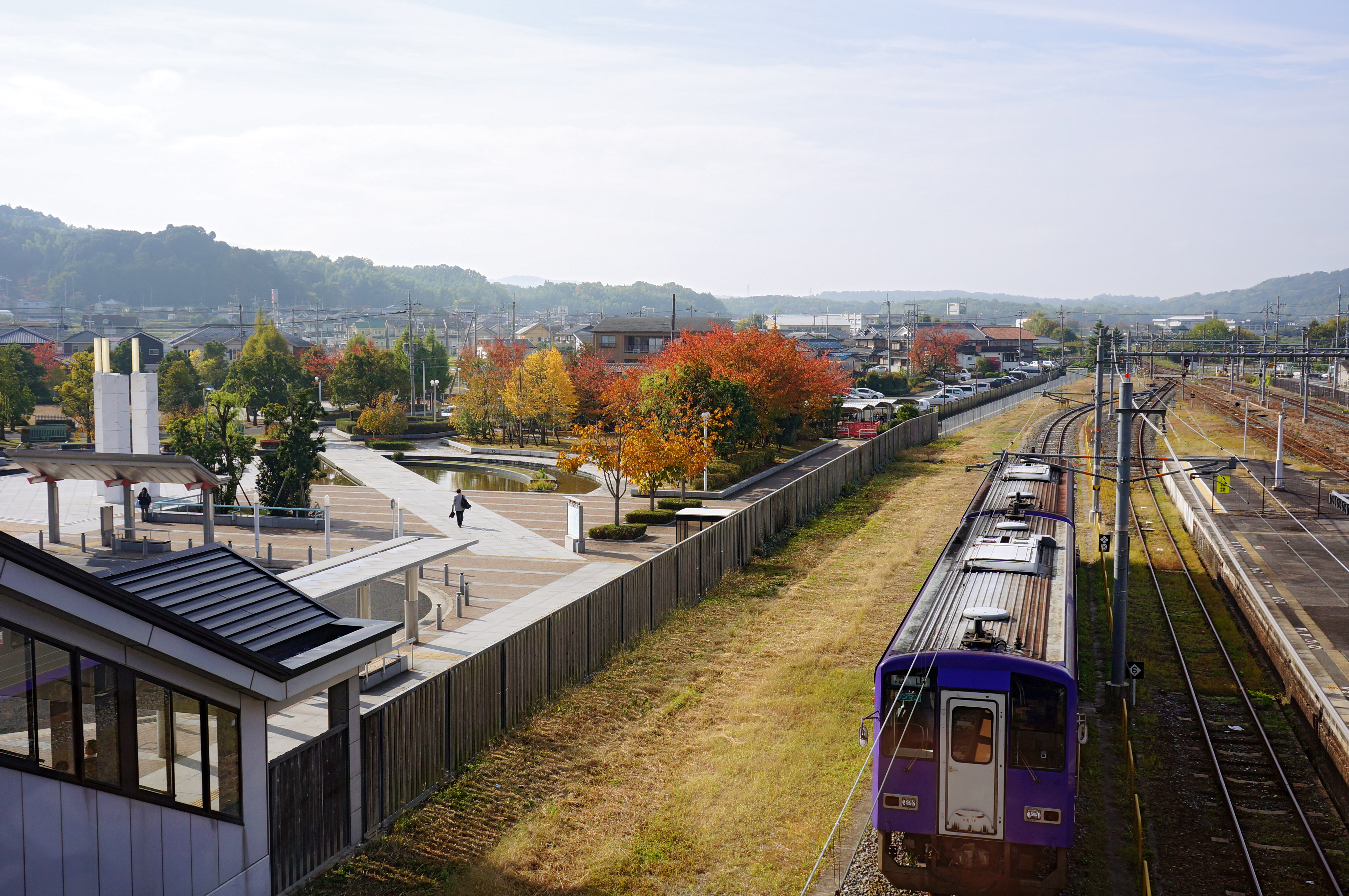 Kamo Station in Kizugawa, Kyoto prefecture, Japan